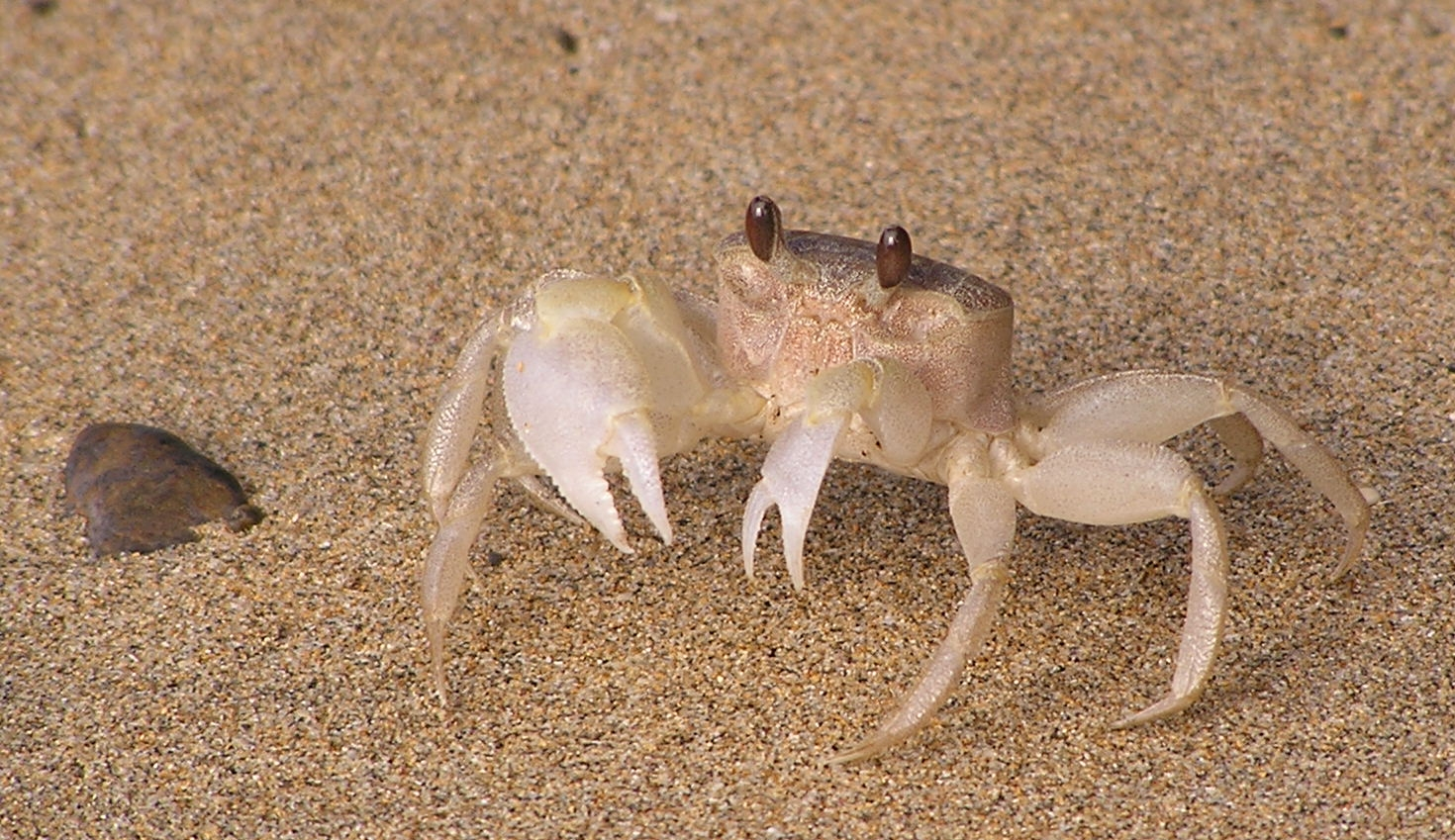 Crab at Batemans Bay, New South Wales, Australia. Probably Ocypode cordimanus: Common Ghost Crab or Smooth-handed Ghost Crab. Characteristics include one claw being much larger than the other. Australian Department of Environment and Heritage page on this species See also